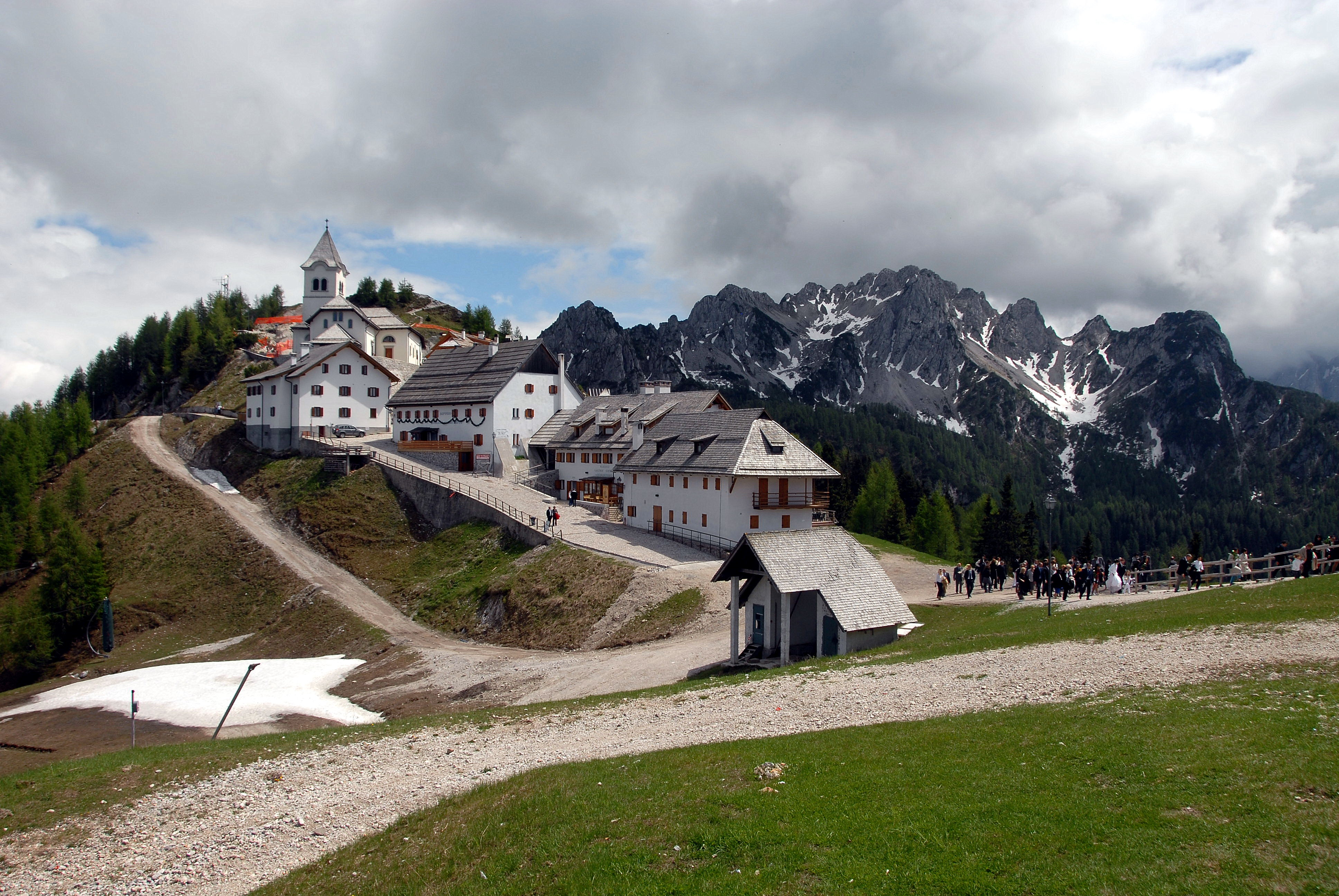 Monte Santo di Lussari with the Mountain "Cima del Cacciatore" in the background, situated in the community Tarvisio, Val Canale, province of Udine, region Friuli-Venezia Giulia, Italy